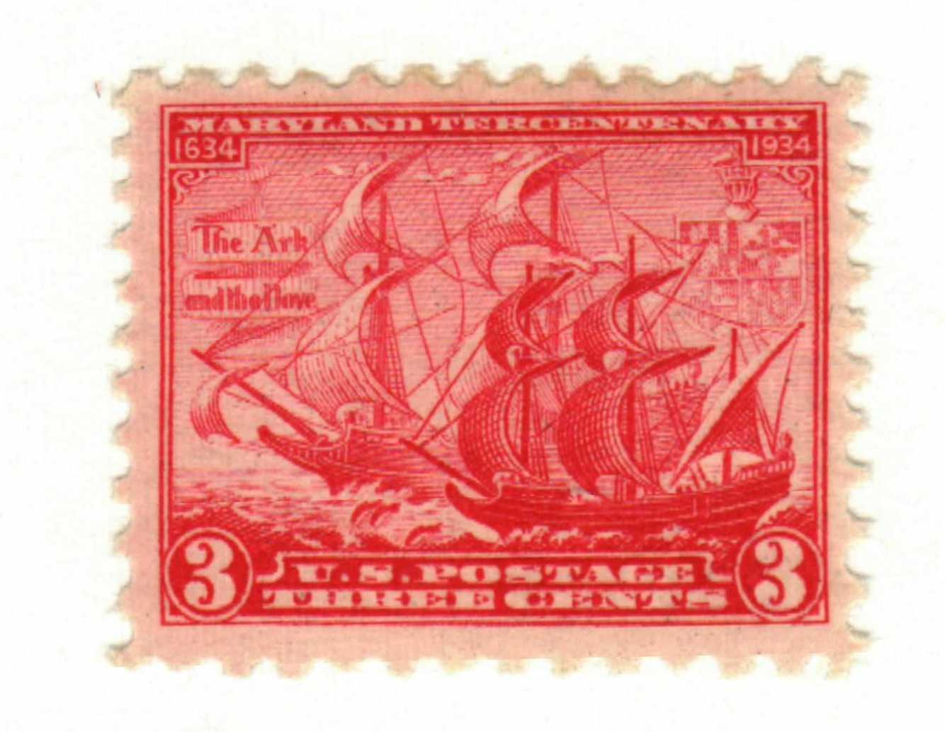 3c Maryland tercentenary issue, Scott 736